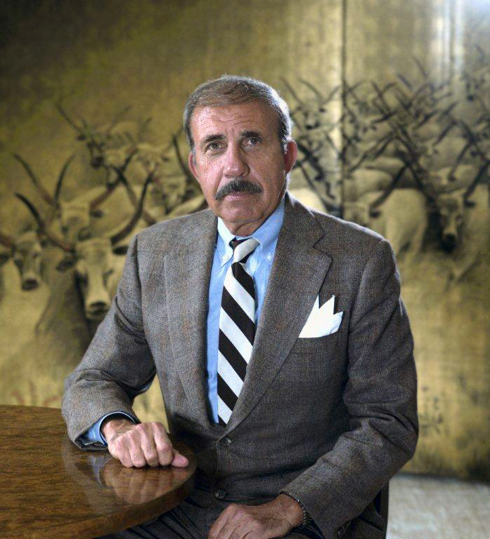 Harry J. Middleton was the first director of the LBJ Presidential Library in Austin, Texas